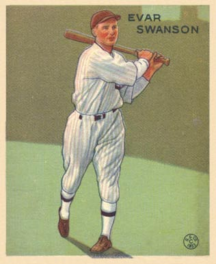 1933 Goudey baseball card of Evar Swanson of the Chicago White Sox #195. PD-not-renewed.